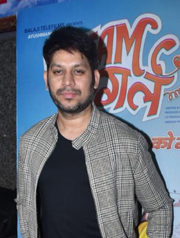 Raaj at the special screening of Dream Girl